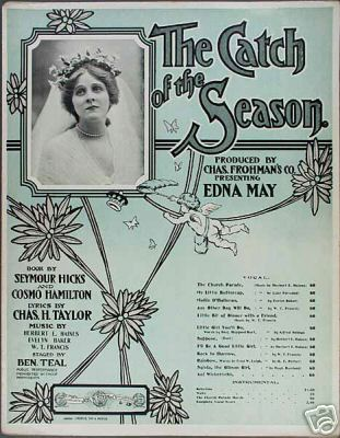 Sheet music to "Little Girl You'll Do", words and music by Benjamin H. Burt and Alfred Solman, from The Catch of the Season, starring Edna May, 1905, published by Jos. W. Stern